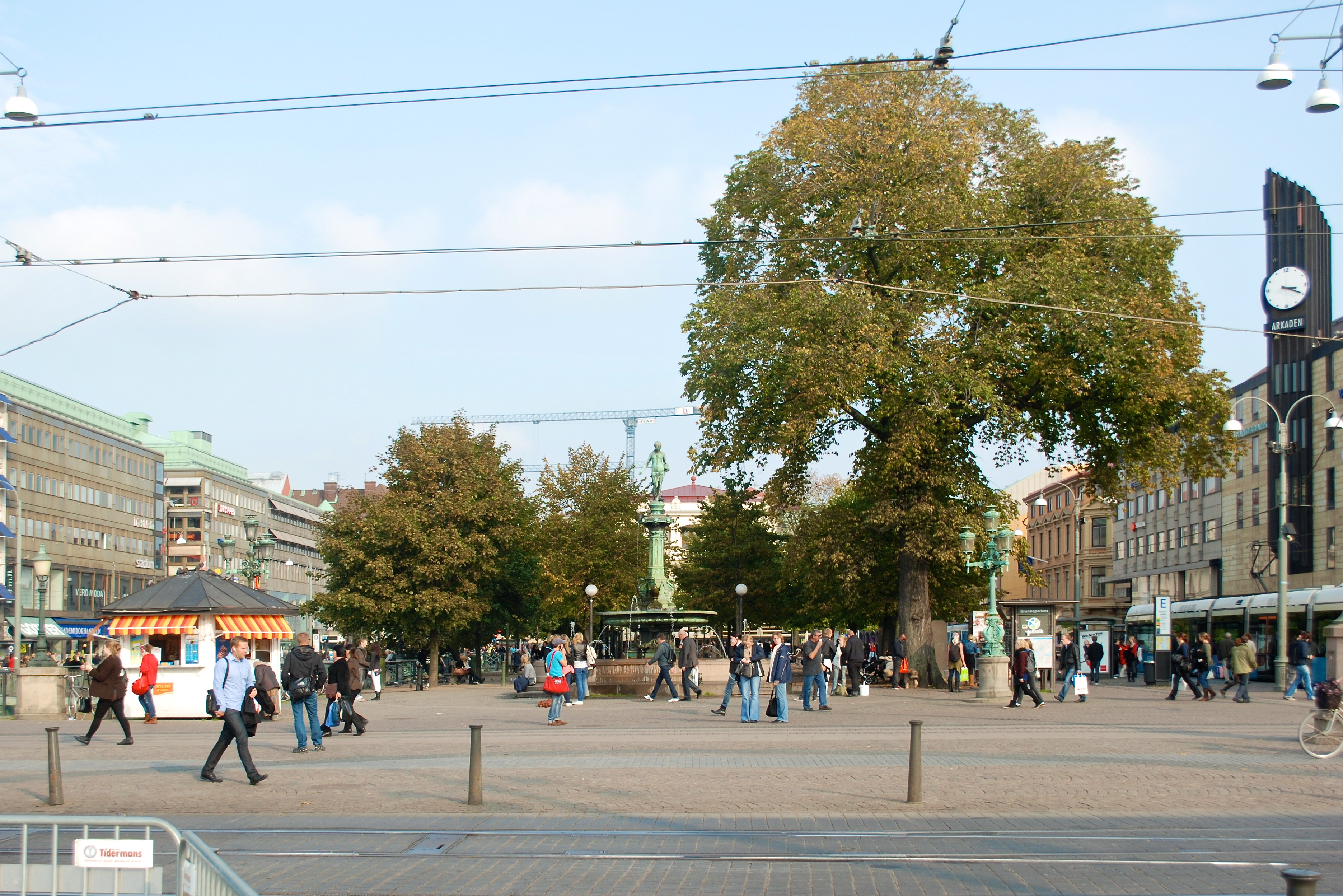 Brunnsparken